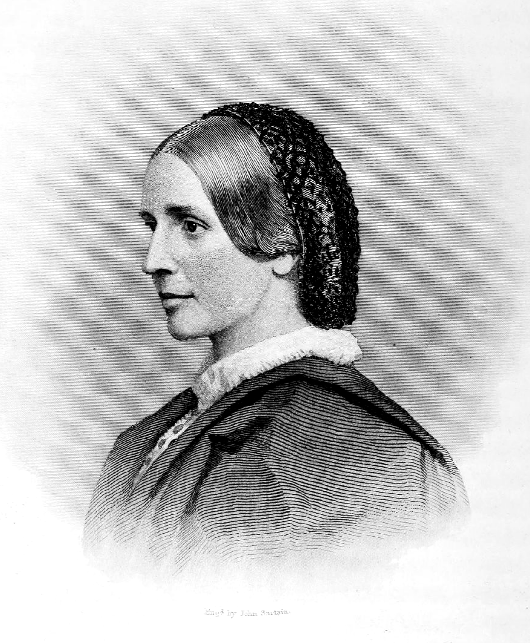 Emily E. Parsons from Woman's Work in the Civil War- a Record of Heroism, Patriotism and Patience (1867) p.273